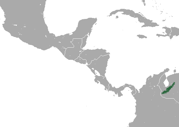 Merida Small-eared Shrew (Cryptotis meridensis) range